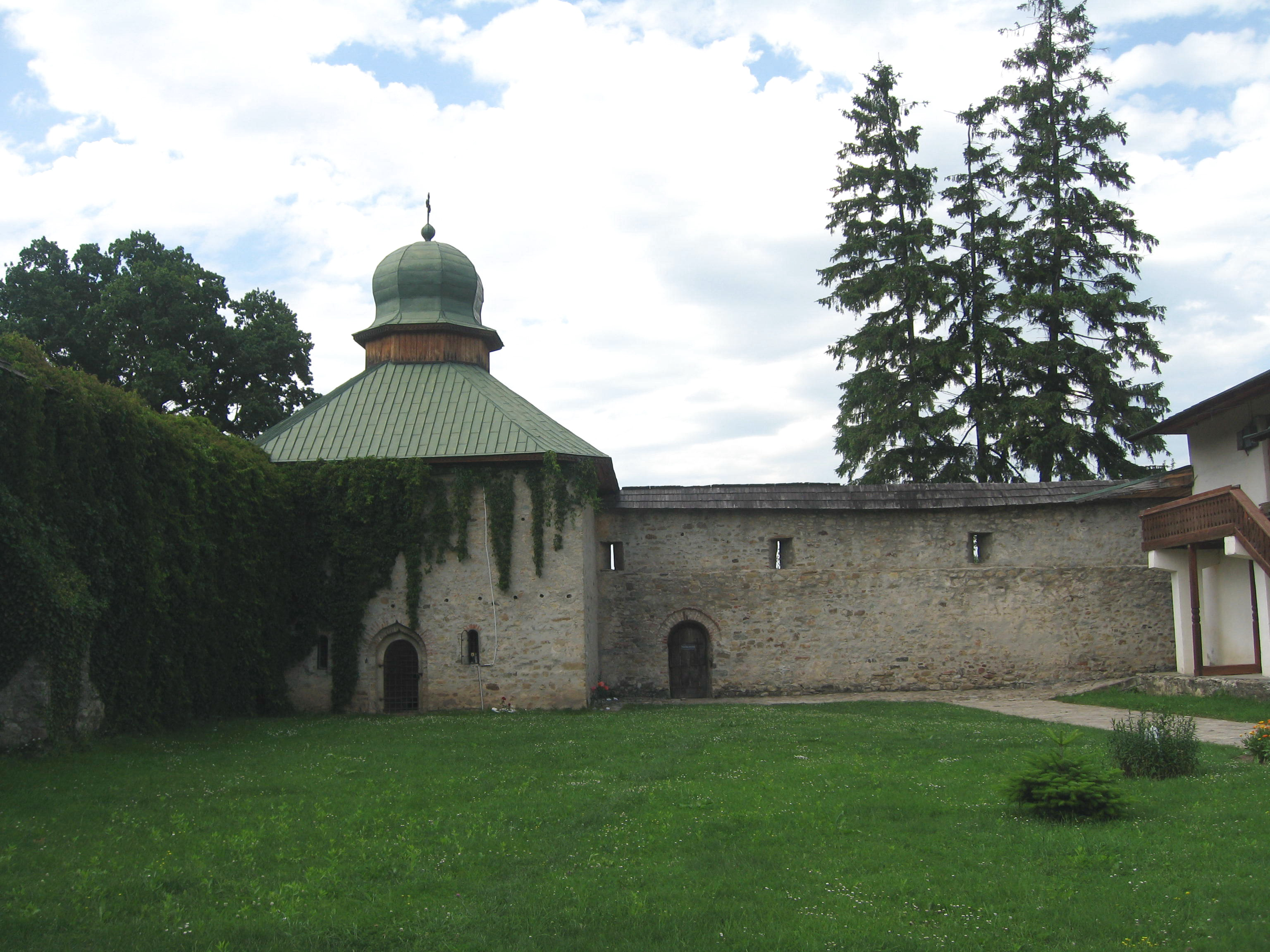 Râşca 04